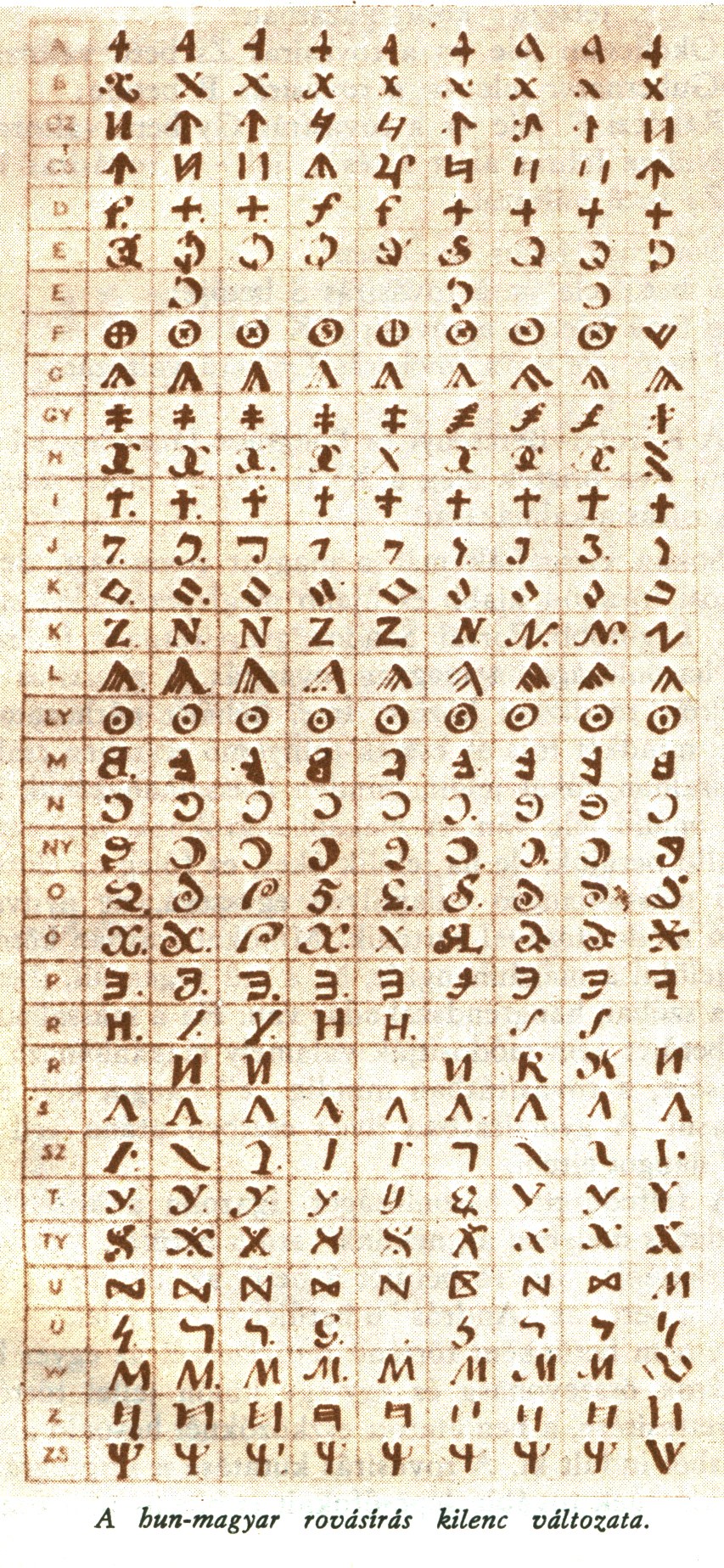 Nine_variations_of_the_Old_Hungarian_alphabet